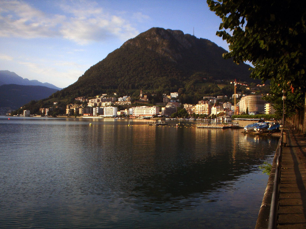 Photo made myself source url